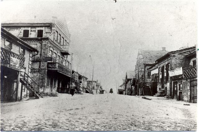 Street of Karl Marx